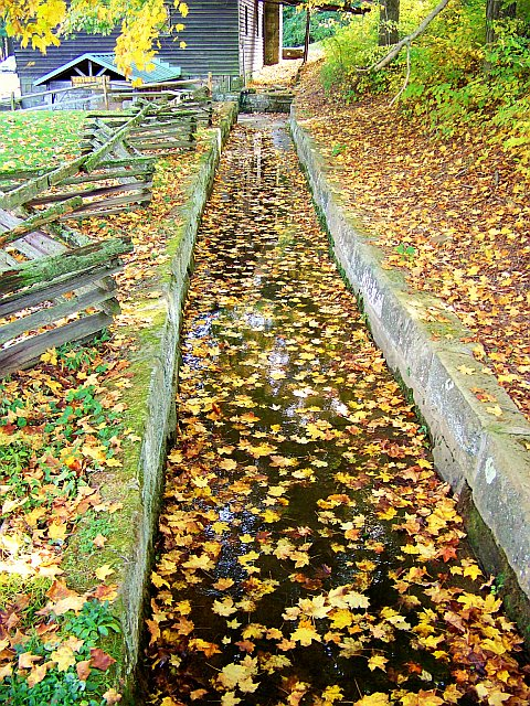 Waterway leading to Gaston's Mill